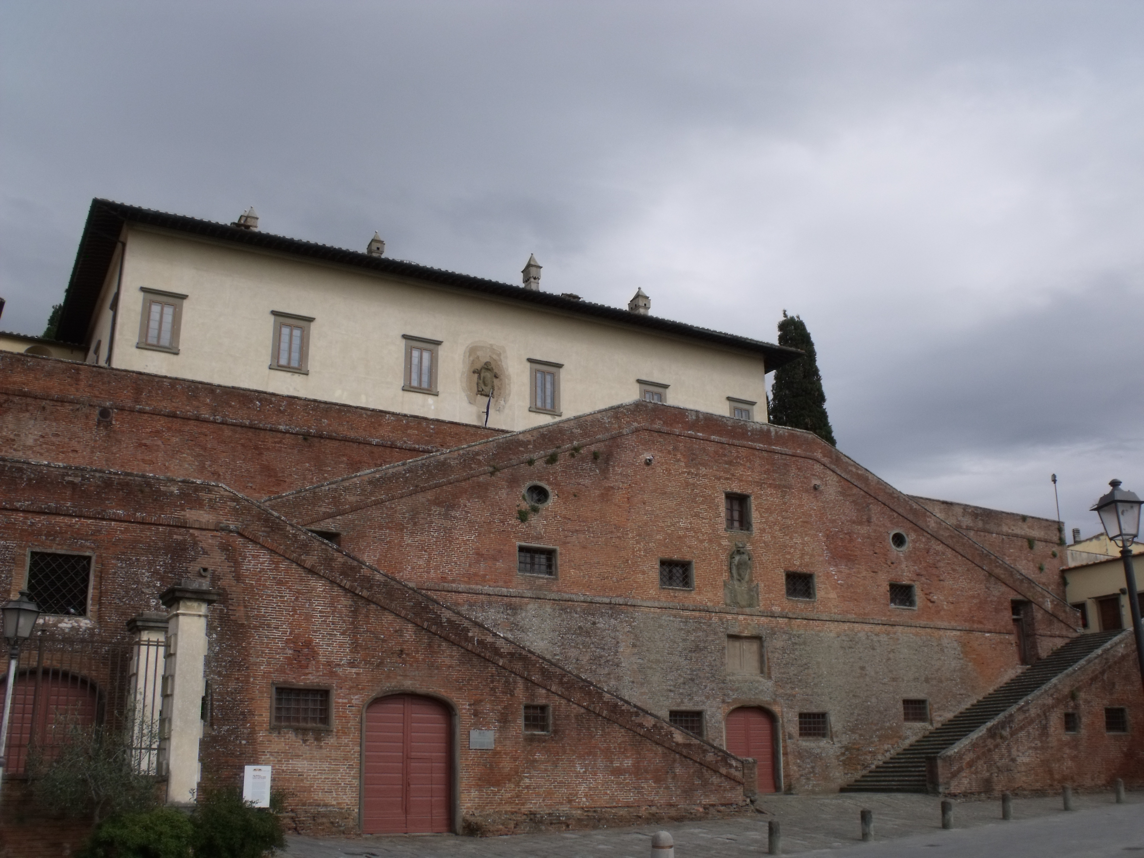 Villa Medicea in Cerreto Guidi, Province of Florence, Tuscany, Italy